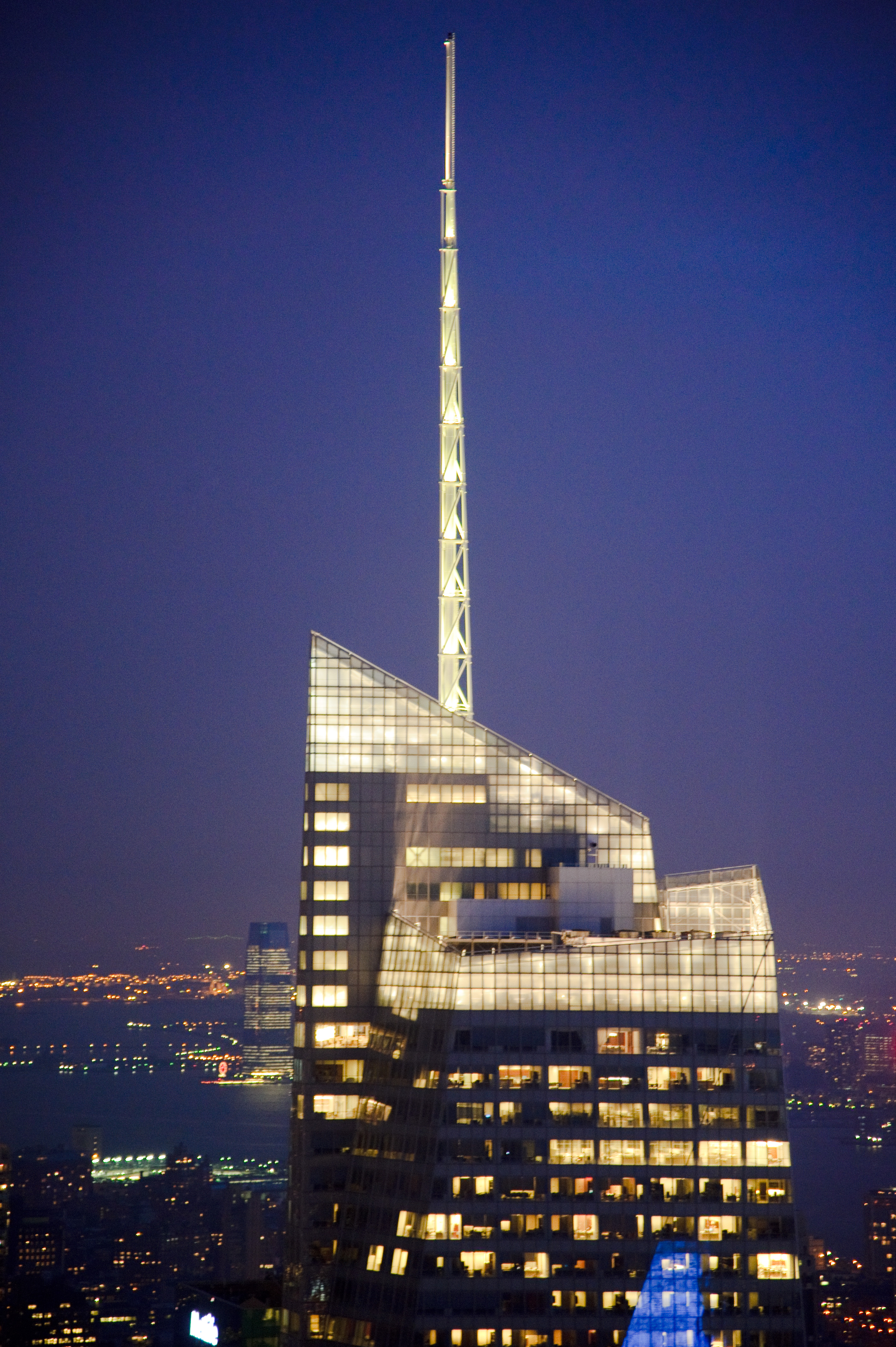 Bank of America Tower zoomed shot from the Top of the Rock.